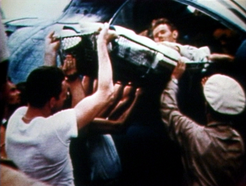 An injured or exhausted rescued U.S. Navy flight crew man is taken on a stretcher out of a Consolidated PBY-5 Catalina on Midway Islands, after the Battle of Midway in June 1942.